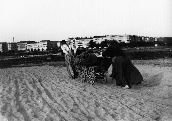 Wood Gatherers Knobelsdorff bridge Berlin-Charlottenburg around 1900